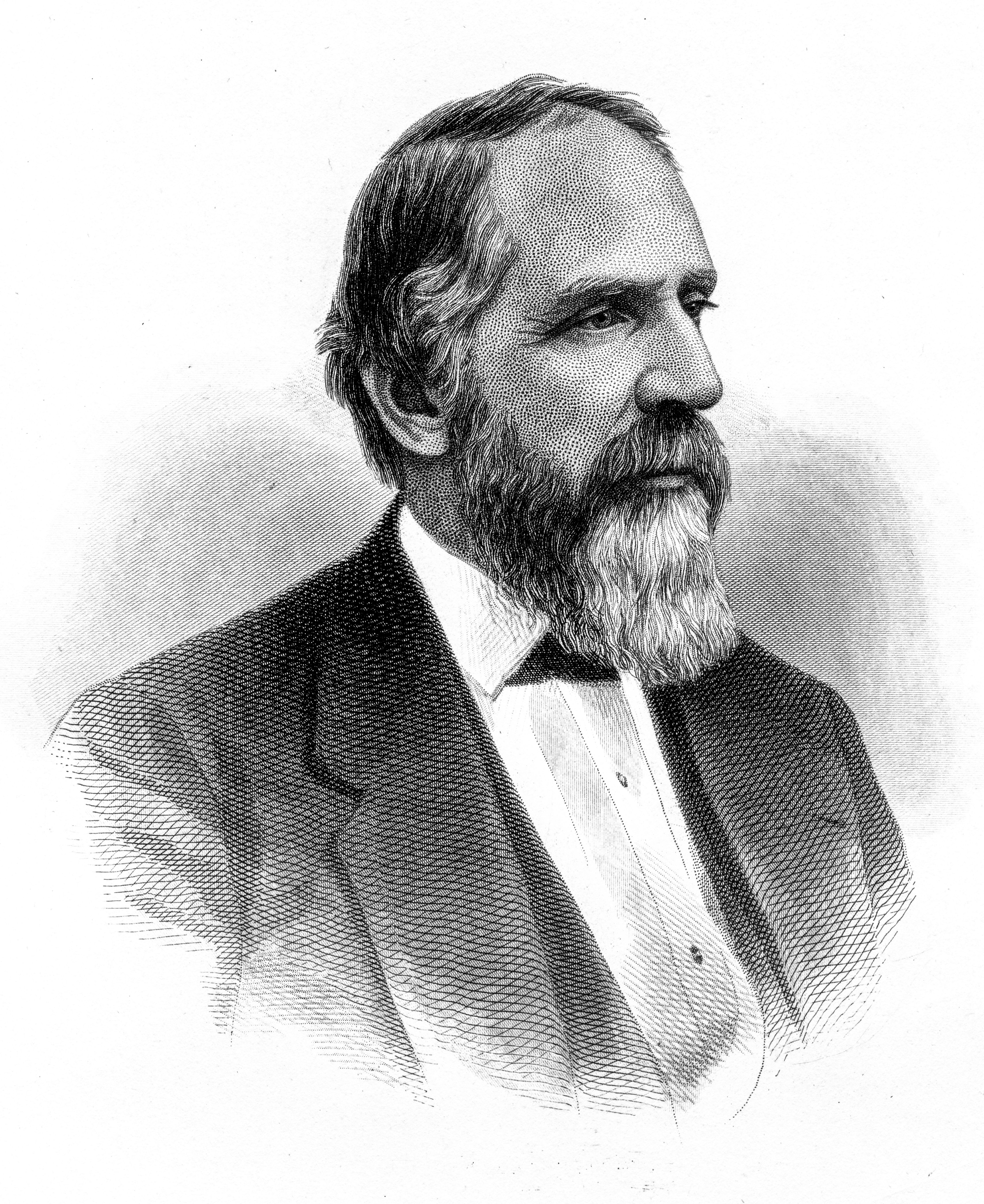 Henry Lippitt (October 9, 1818 - June 5, 1891) was the 33rd Governor of Rhode Island from 1875 to 1877. Engraving from The Biographical Cyclopedia of Representative Men of Rhode Island (1881)